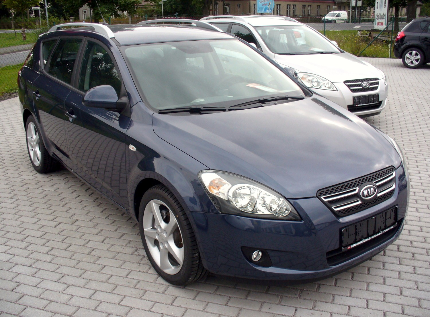 Kia cee'd sw